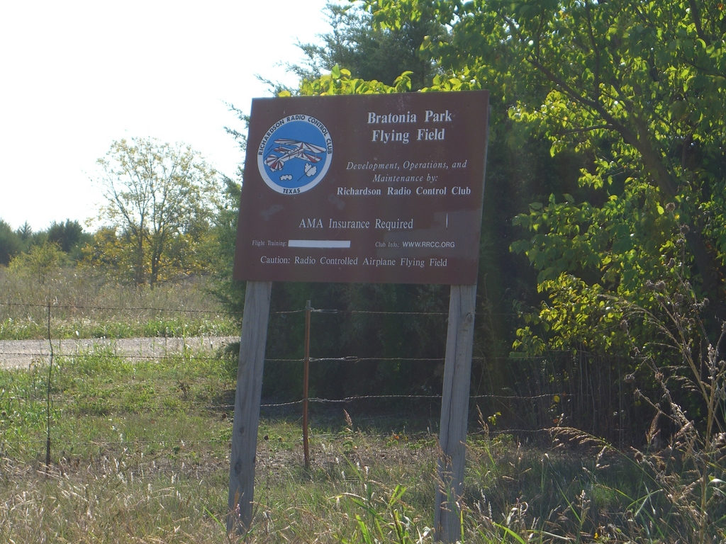 The sign for Bratoria Park, Texas, USA